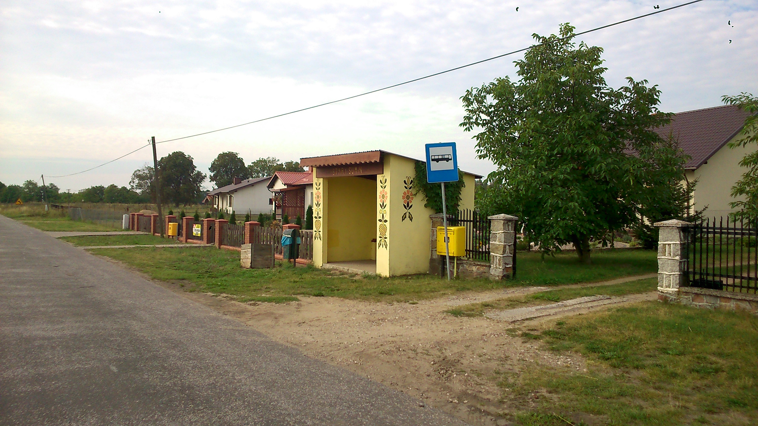 Stary Sumin - village in Kuyavian-Pomeranian Voivodeship, Poland. Bus stop with motif of local embroidery (Haft borowiacki)